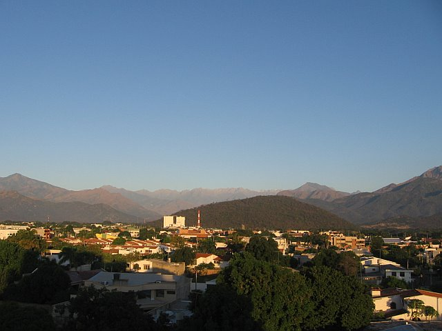 picture of northern Valledupar, by user:f3rn4nd0